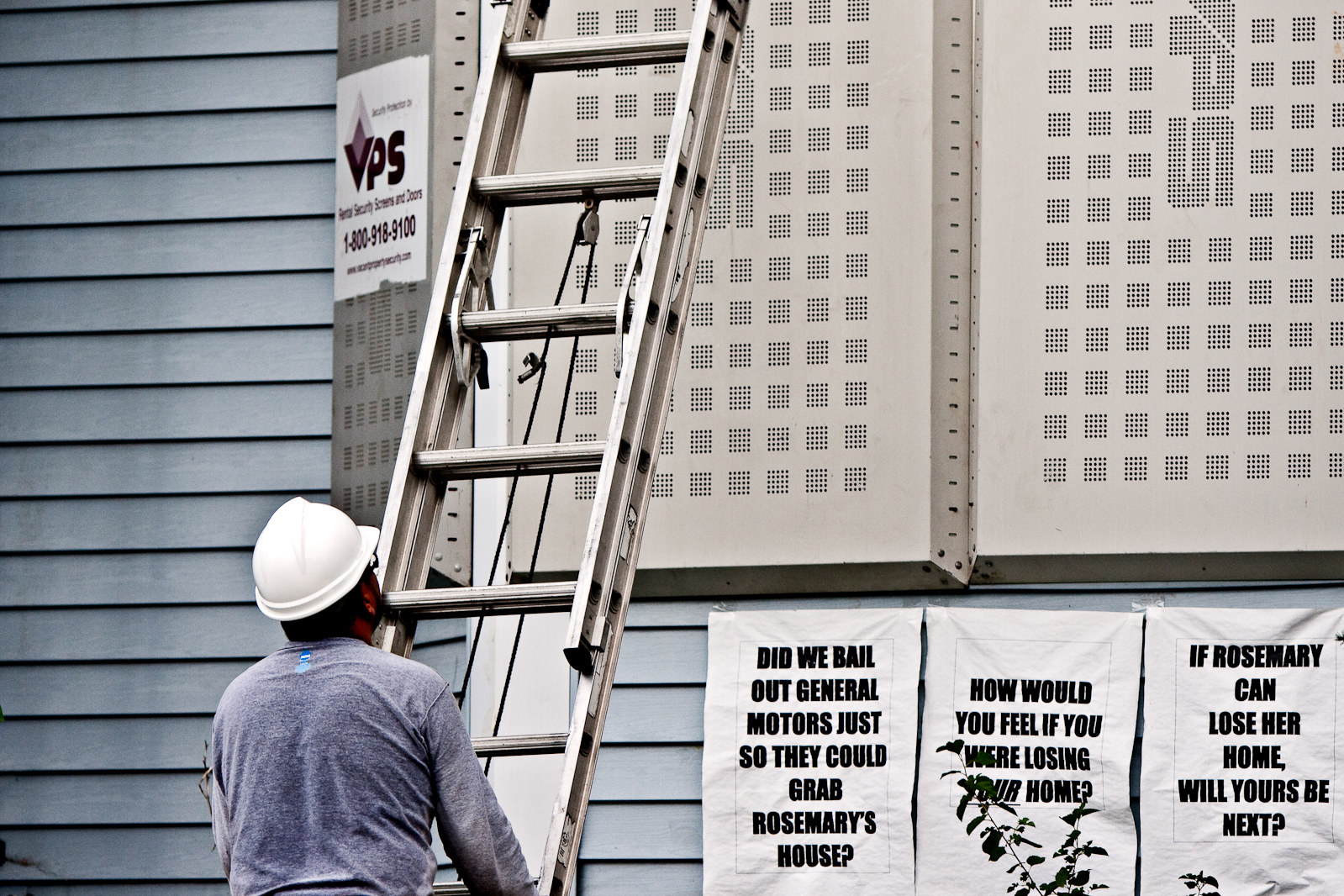 A worker installs steel security screens over windows after police evict Rosemary Williams from her foreclosed home at 3138 Clinton Avenue South in South Minneapolis.